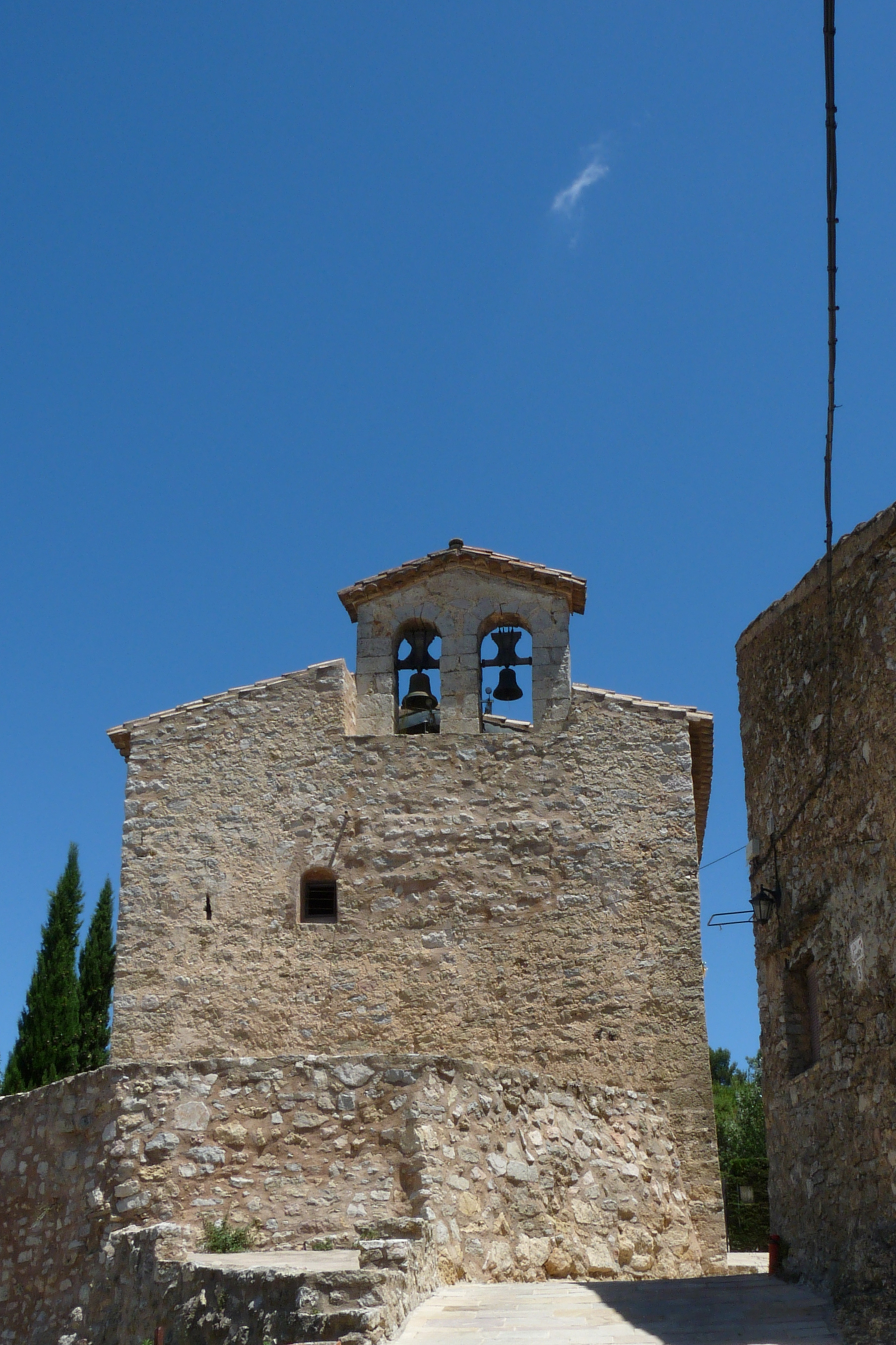 Romanesque church of Saint John in Llaberia